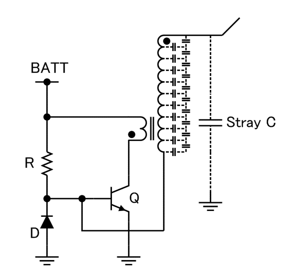 Schematic of SSTC